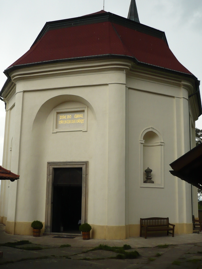 Castle Valdstejn - castle church